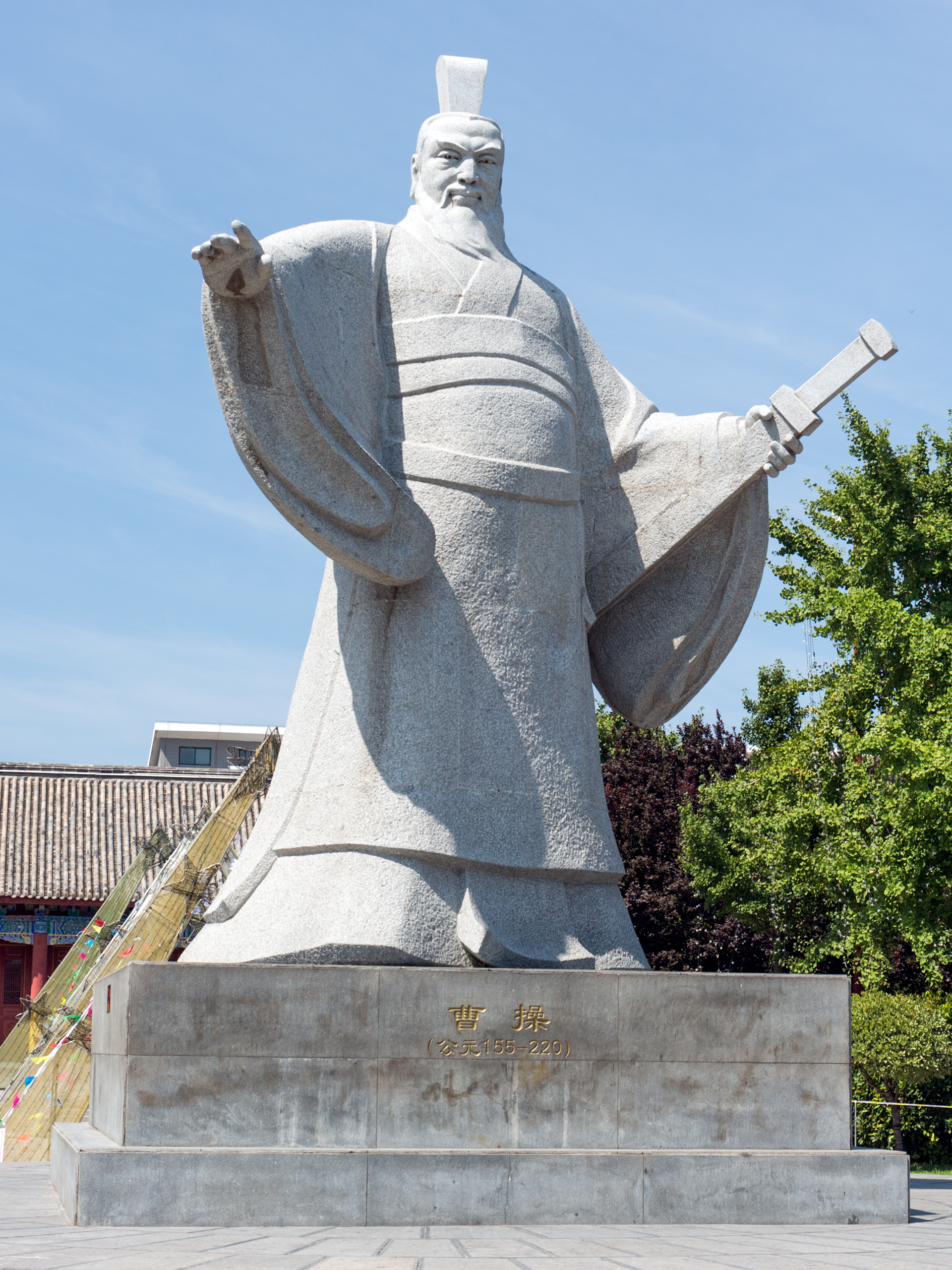 Cao Cao statue at the Government Office of Prime Minister Cao Cao